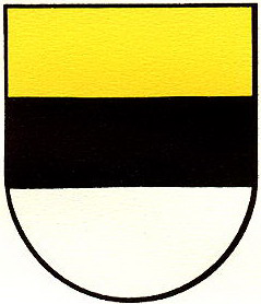 Blazon of Flums, Canton of St. Gallen